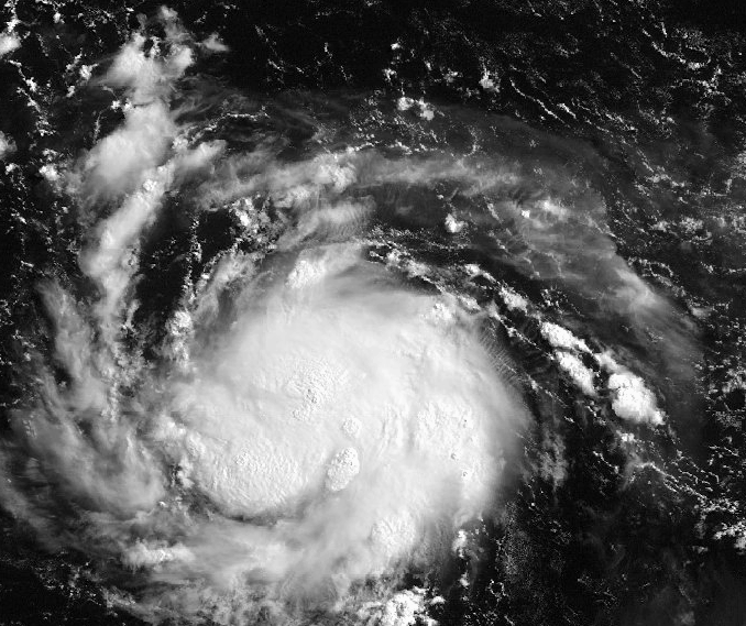 Tropical Depression 03W (Baysang)on 2010-07-12